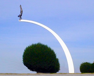 The Jumper, Liège, Belgium. Original statue created by Idel Ianchelevici and exhibited at the Liège harbour. The status of this picture are the same as for File:Le Plongeur.jpg